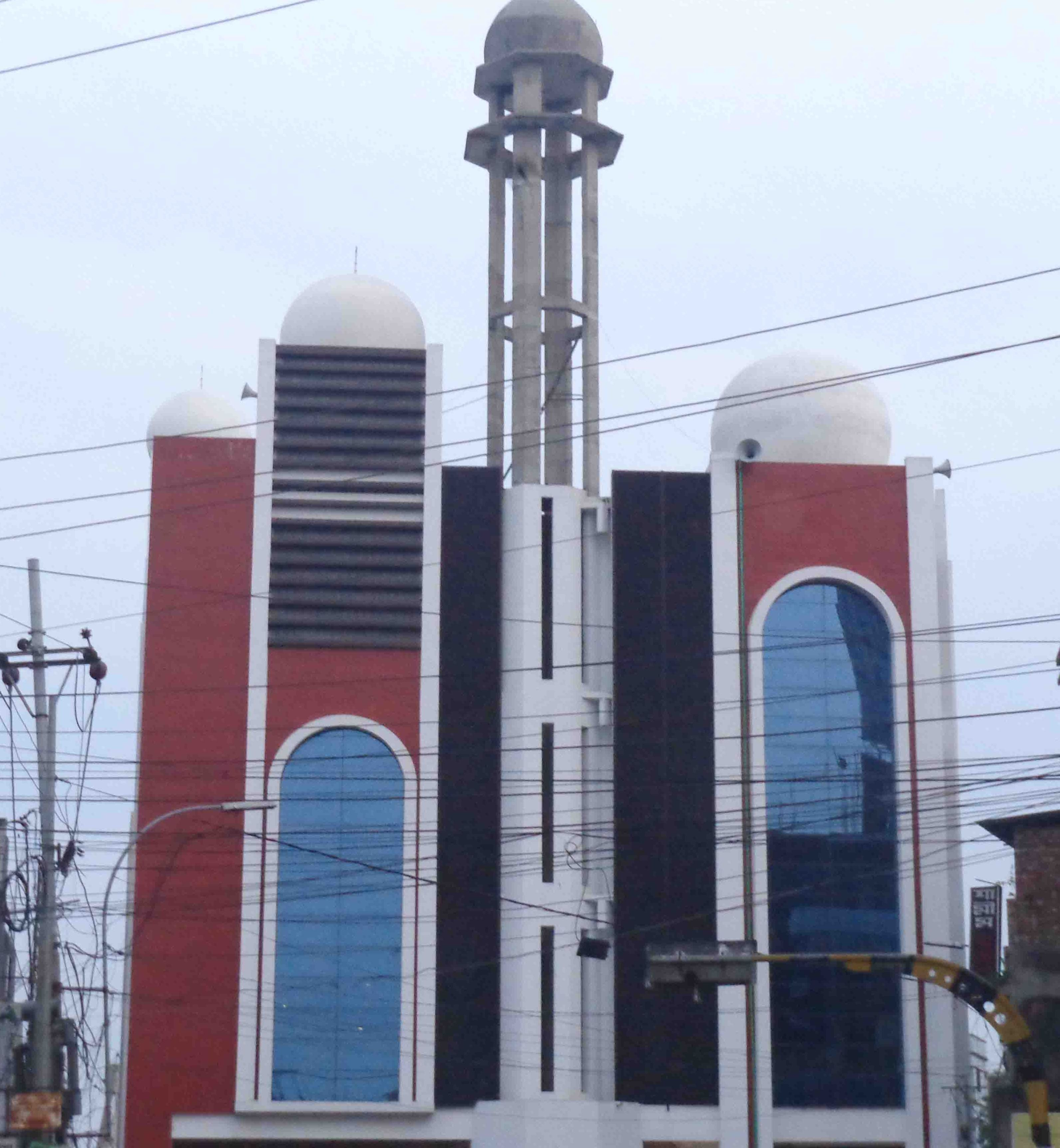 Central Mosque Of Rajshahi